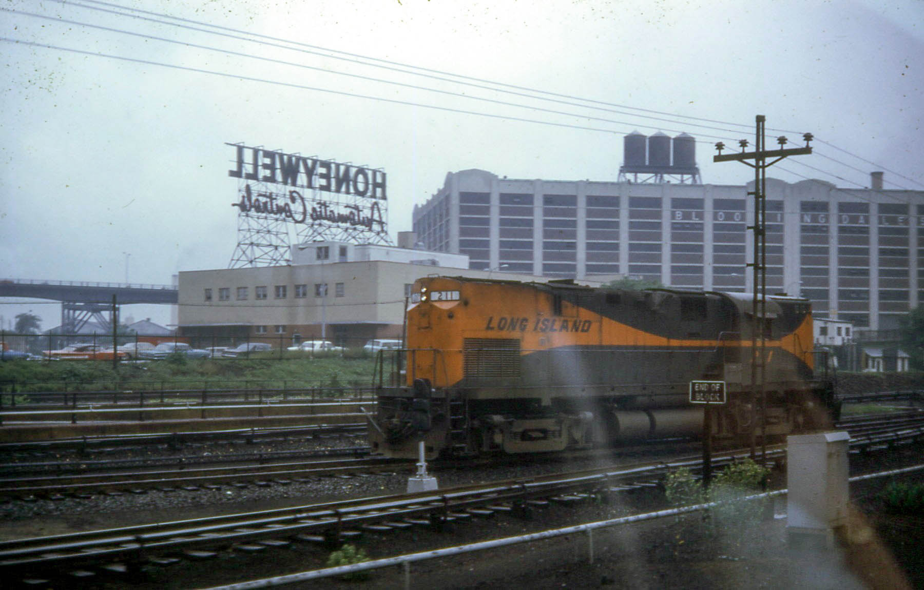 19670630 35 LI 211 New York